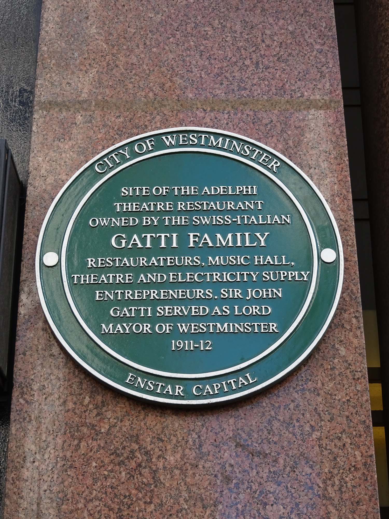 Green plaque erected in 2015 by City of Westminster and Enstar Capital at 410 The Strand, London WC2R 0NS